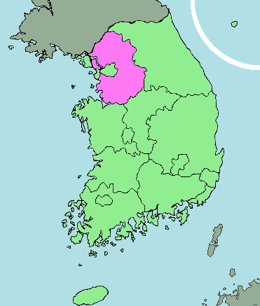 area map of Gyeonggi